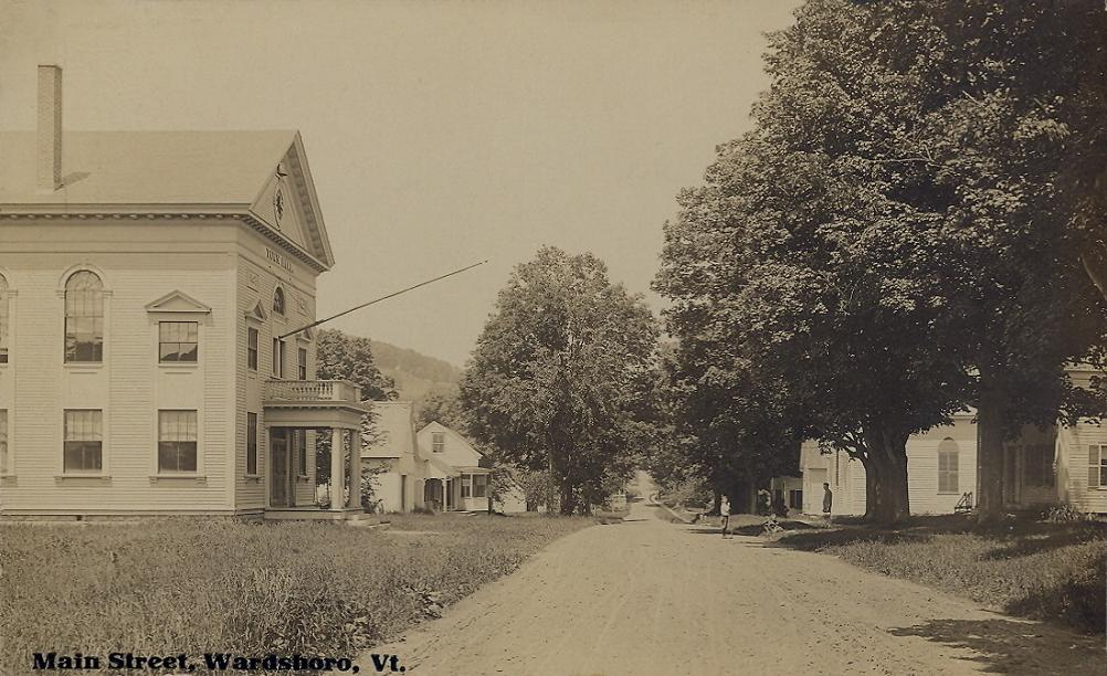 Main Street, Wardsboro, Vermont. At left is the town hall.